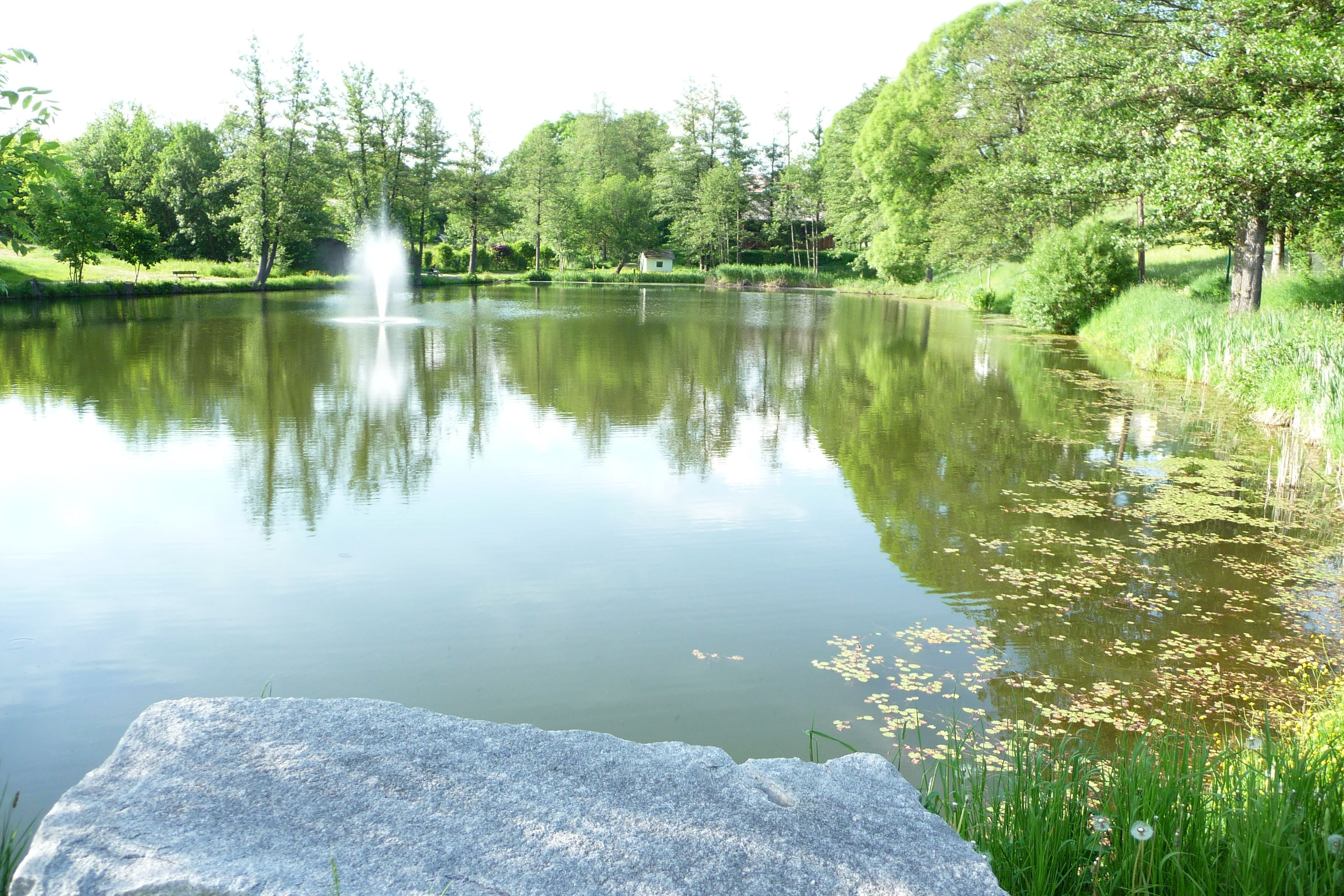 Lake Poeschl in Rohrbach Upper Austria